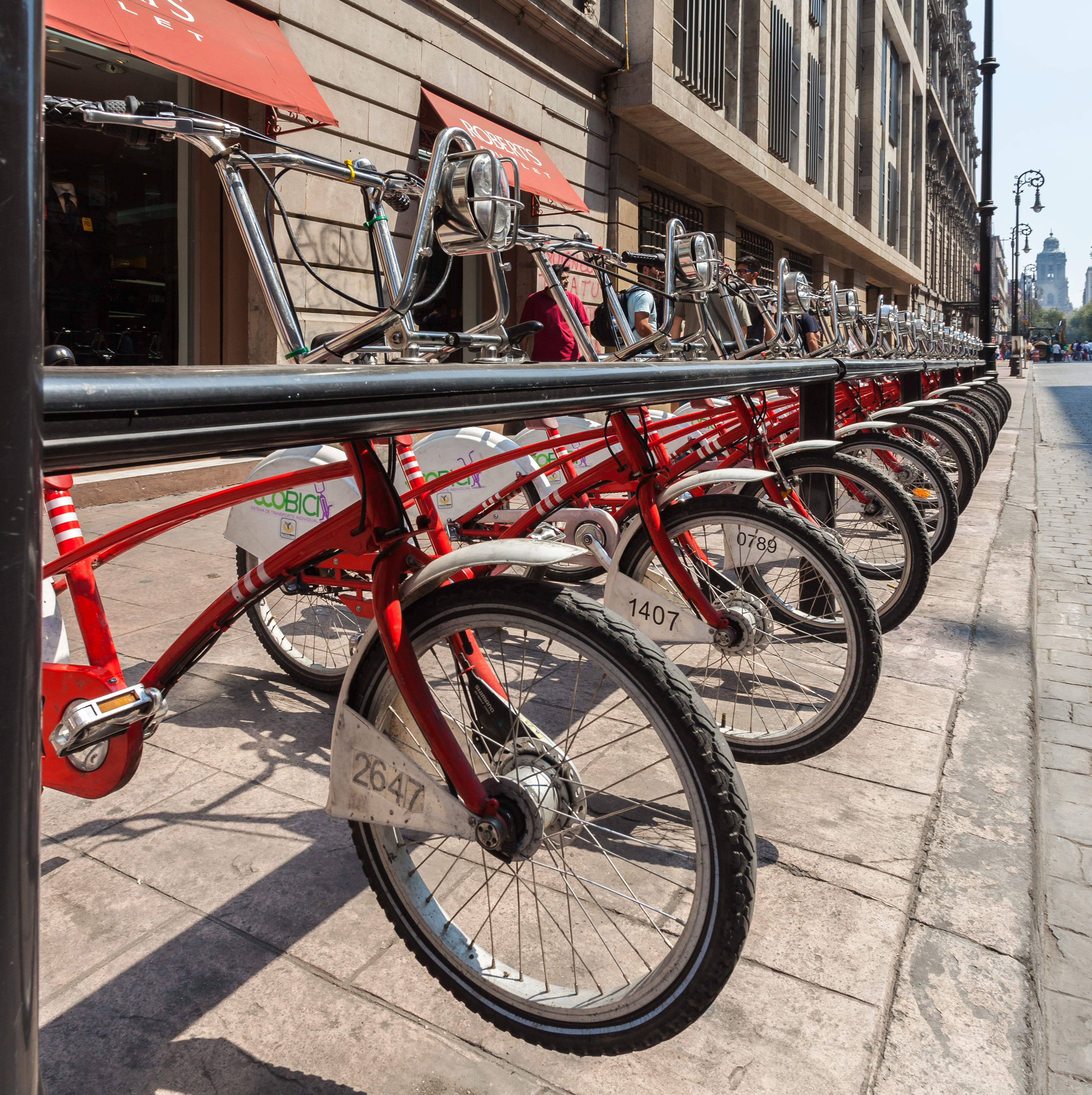 Bicycles station, México D.F., México